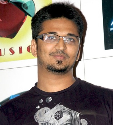 Amit Trivedi